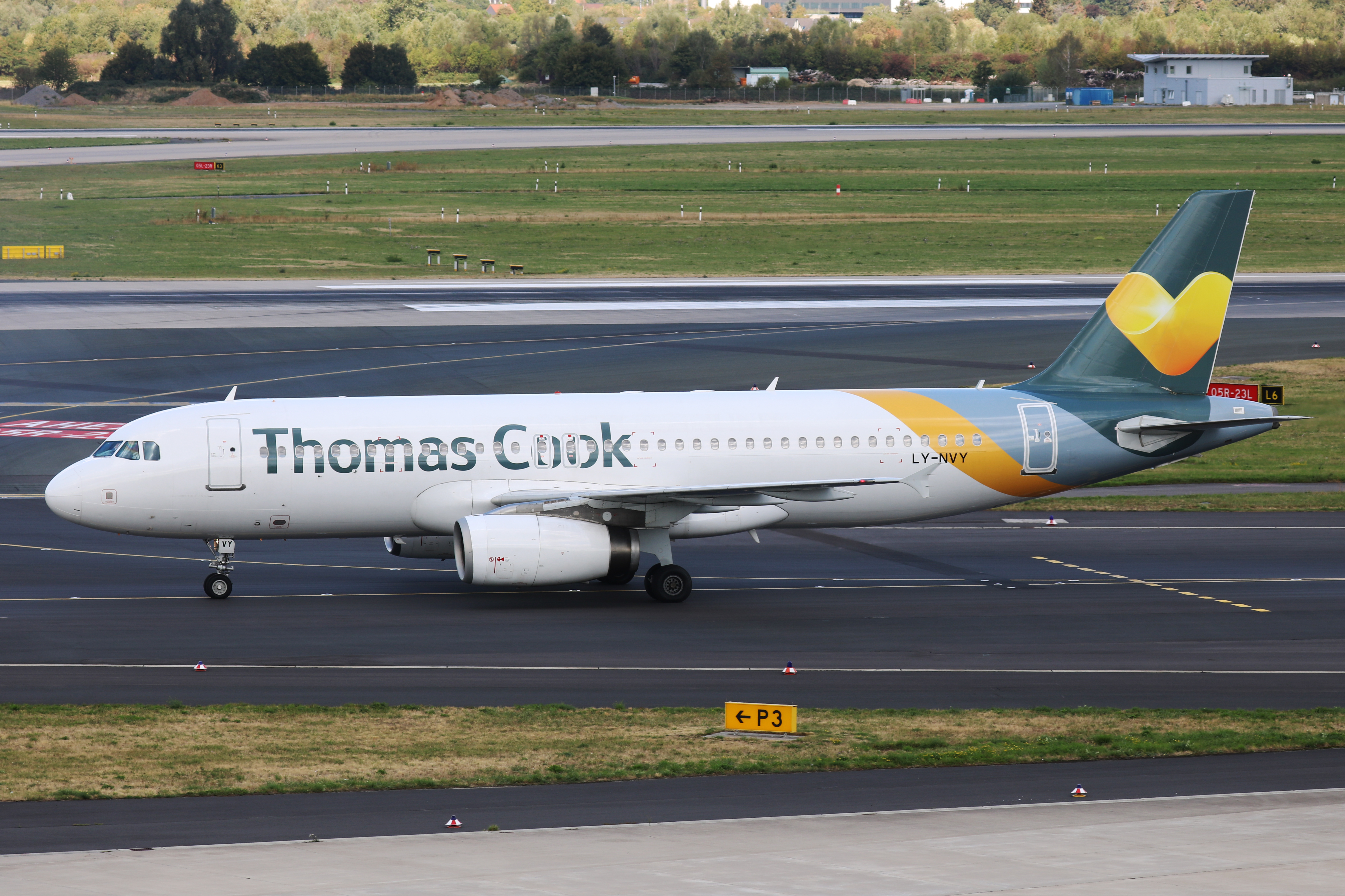 Flughafen Düsseldorf, Airbus A320-200 (LY-NVY) der Condor / Thomas Cook Airlines, operated by Avion Express